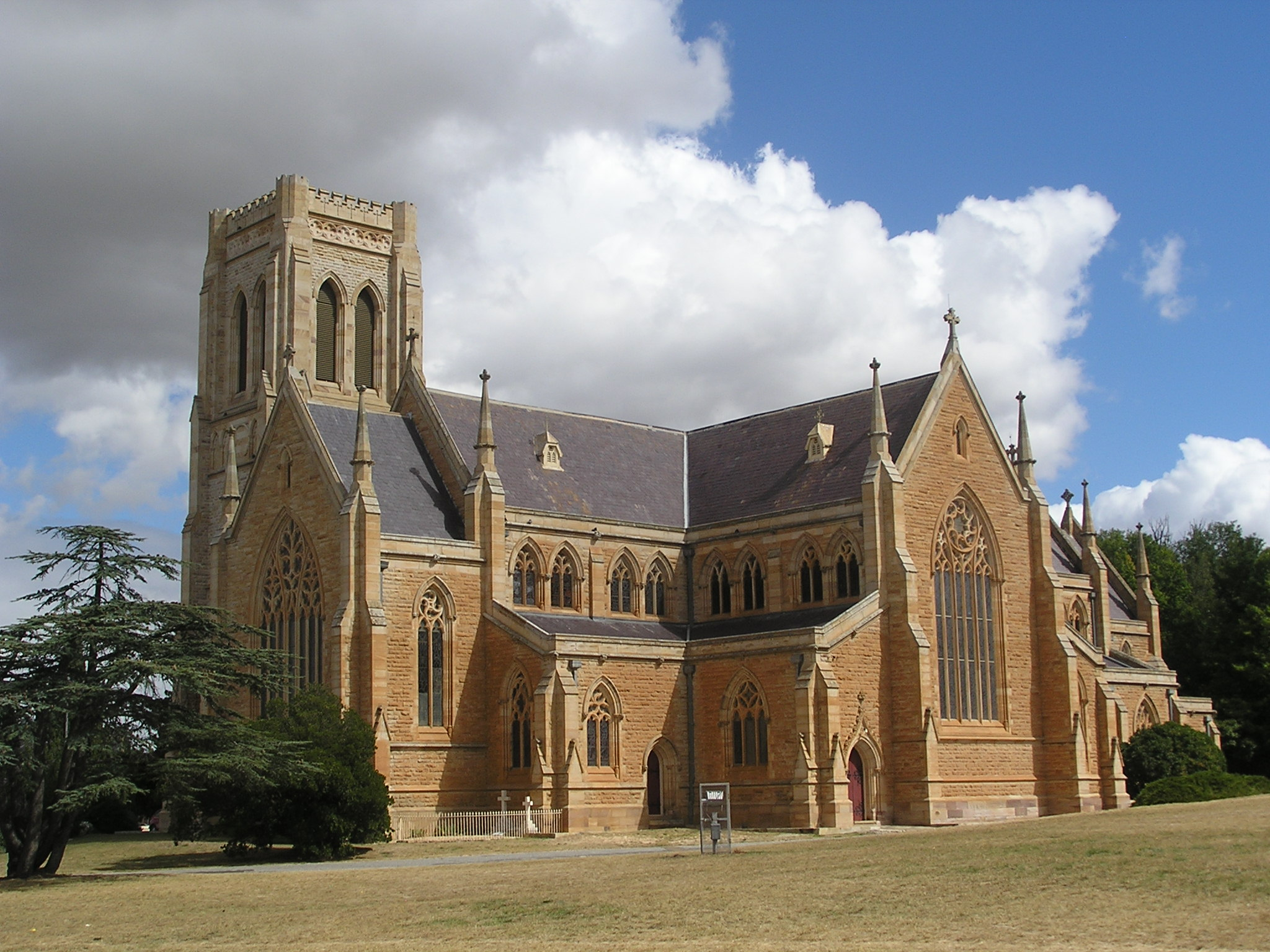 Goulburn, New South Wales, Australia - St Saviours Cathedral designed by Edmund Blacket in 1874. Picture taken by AYArktos